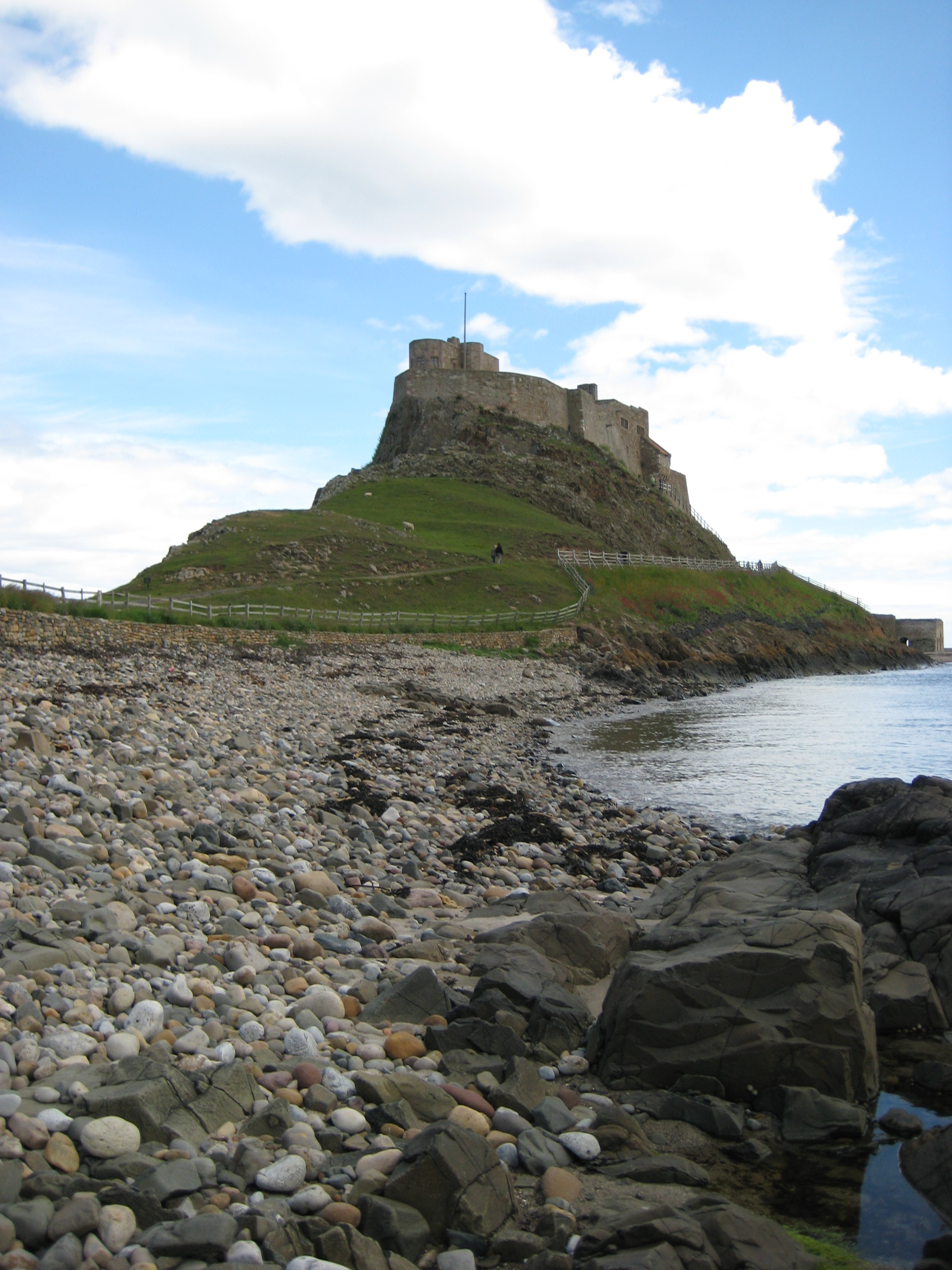 Lindisfarne Castle on Holy Island, Northumberland.